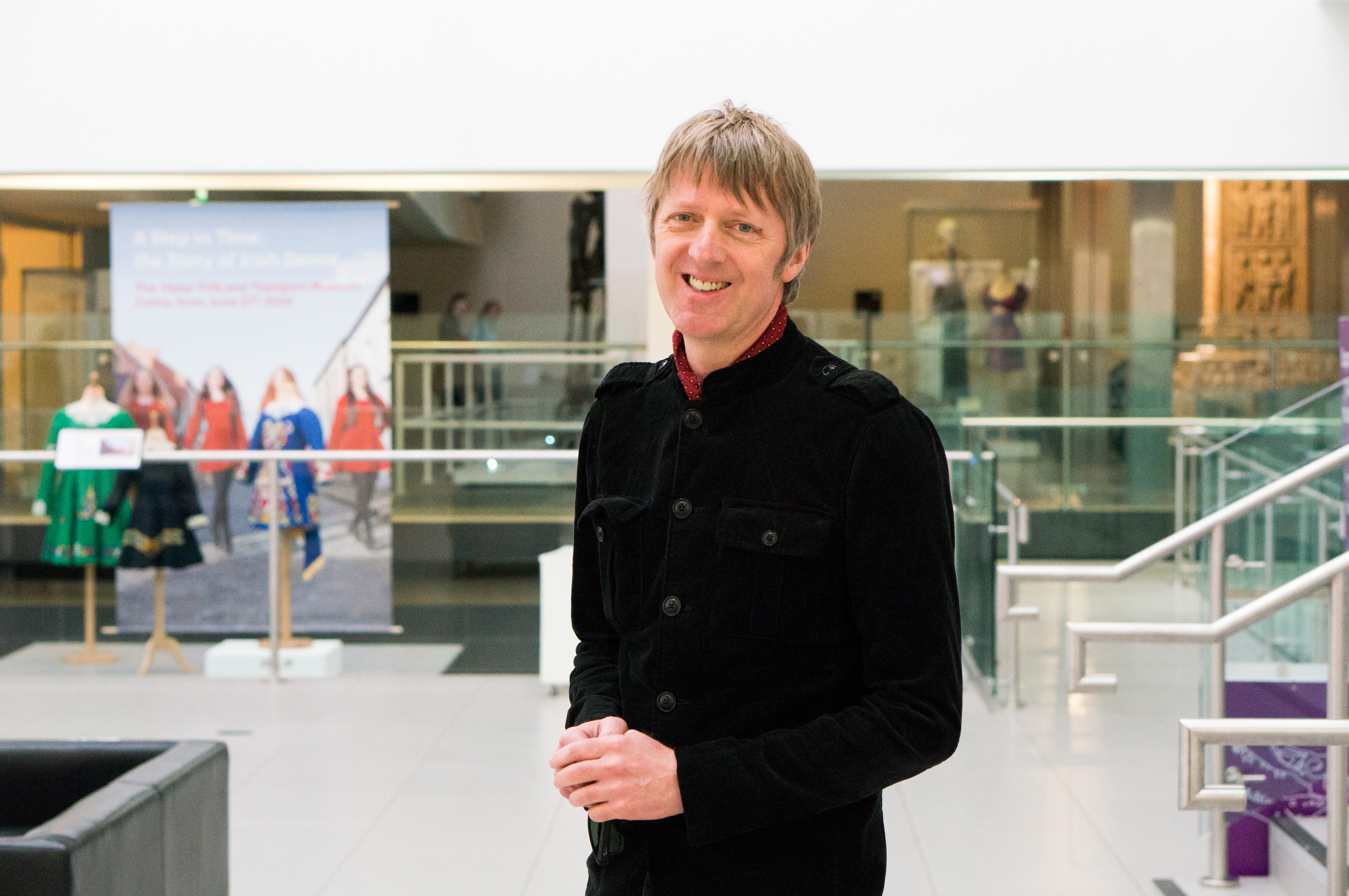 Writer